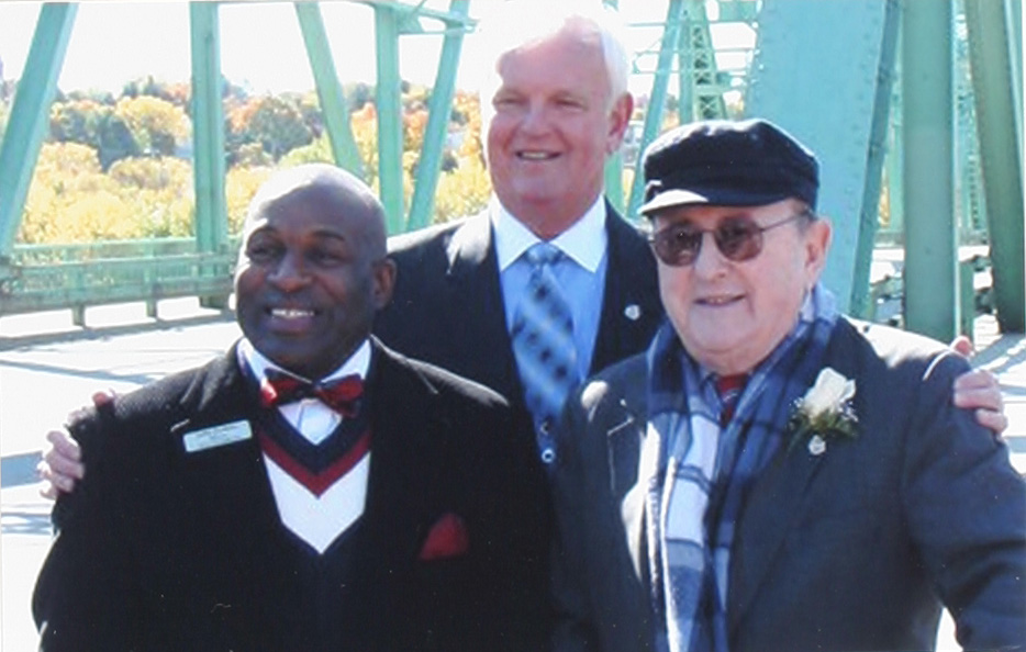 Dedication of the Bernard Lown Peace Bridge Left to right: Auburn, ME mayor, John Jenkins, Lewiston, ME mayor, Laurent Gilbert, and Dr. Bernard Lown